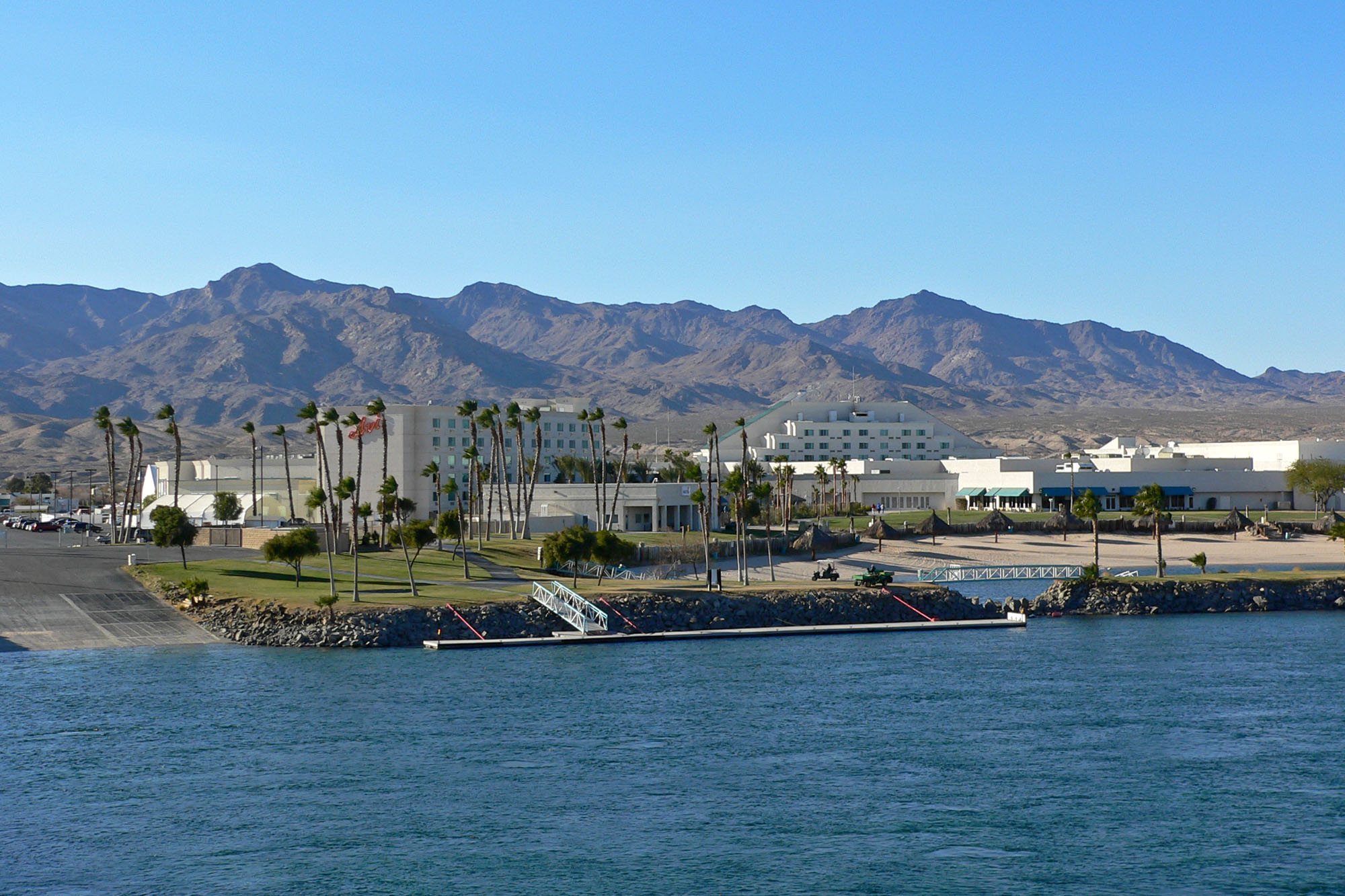 Colorado River side of the Avi Resort & Casino — in Laughlin, Nevada.